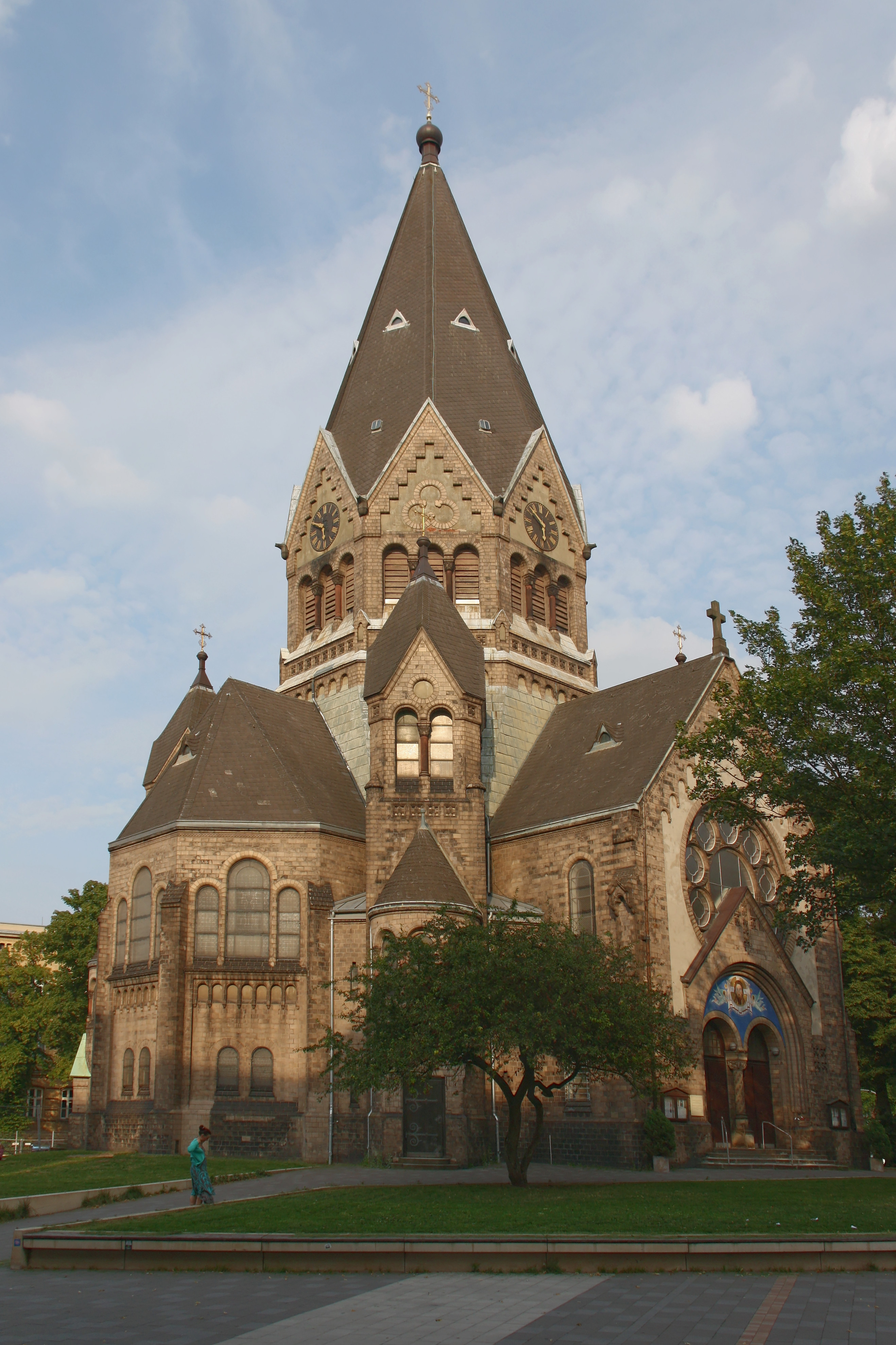 Orthodox church of St. John of Kronstadt in Hamburg-St.Pauli, view from the south-west